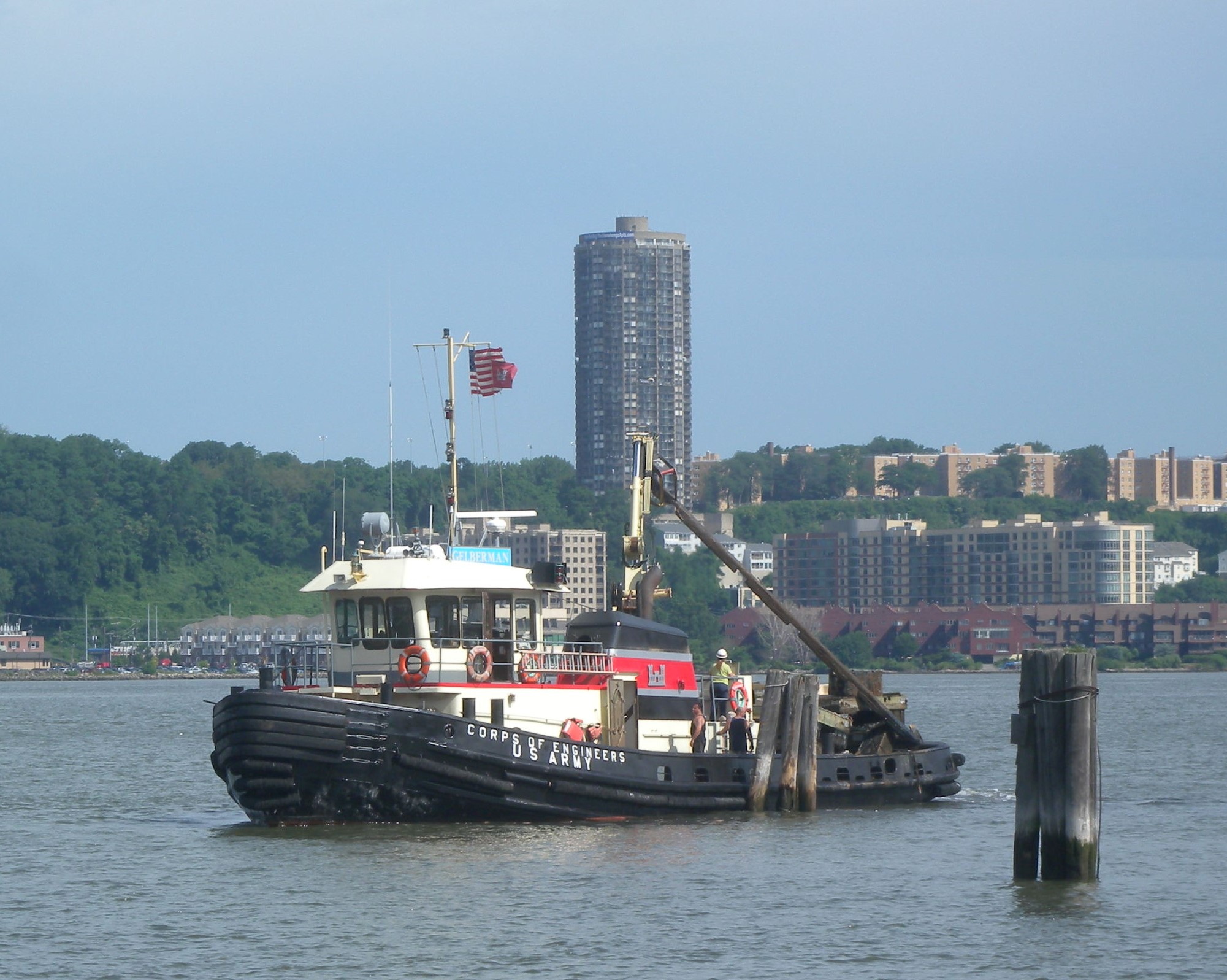 Looking north as Army boat uses crane to remove a floating timber on a cloudy morning.